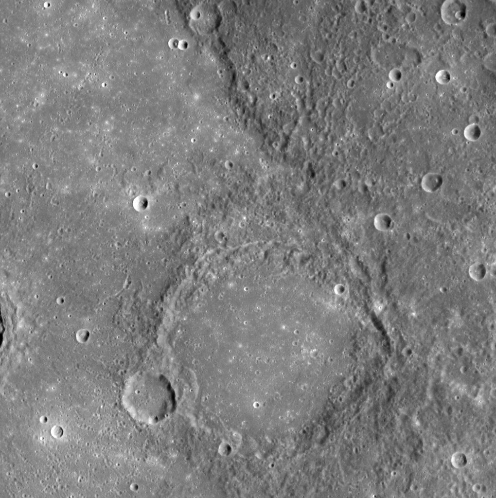 Rūdaki crater on Mercury (below center). MESSENGER Wide Angle Camera image. Approximate north is at top. Emission Angle: 0.2 Incidence Angle: 51.7 Latitude: -2.7 Longitude: 308.0 Phase Angle: 51.8